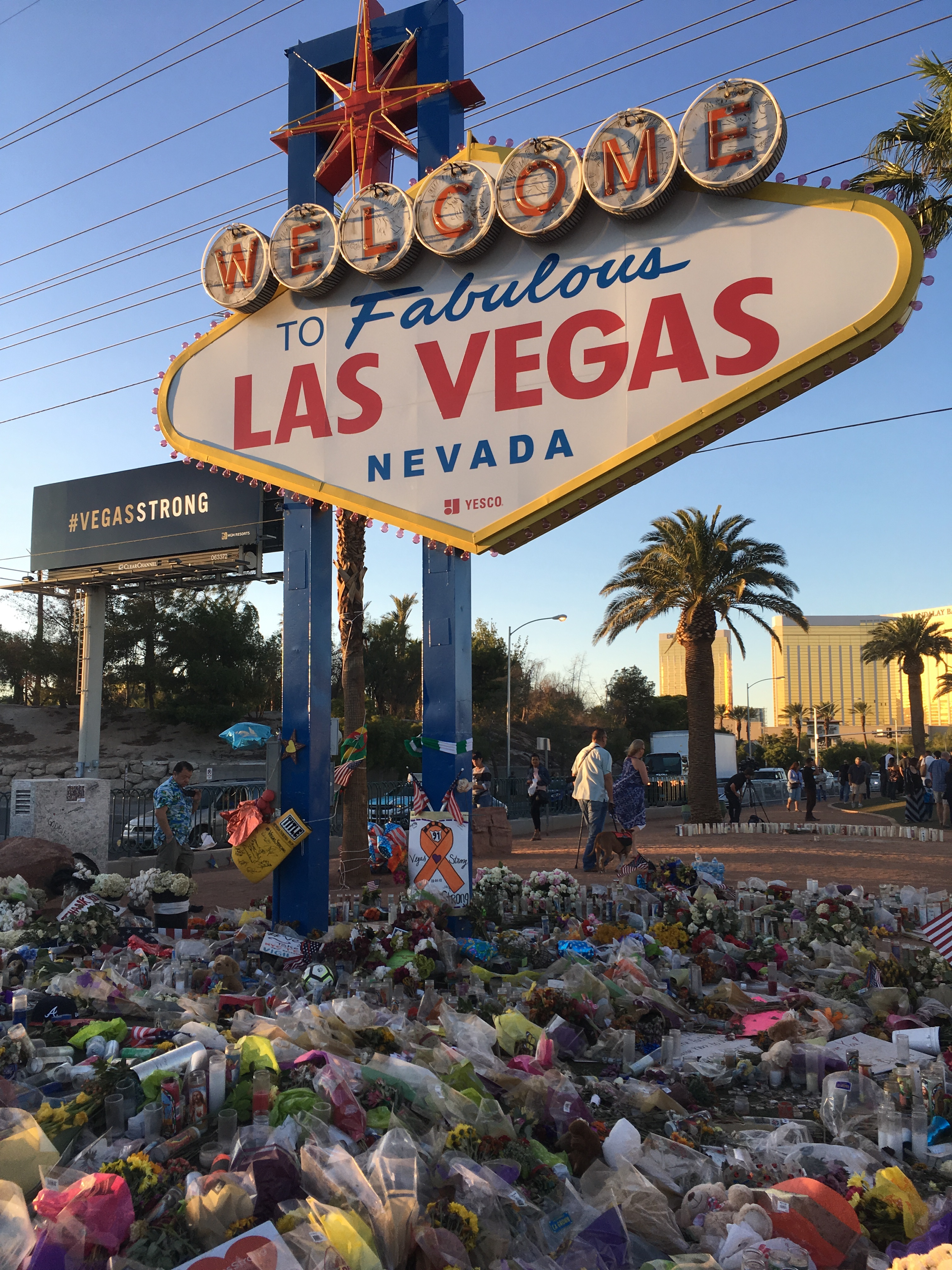 The Las Vegas Sign on The Strip, as seen on October 9, 2017, covered in flowers in the wake of the 2017 Las Vegas Strip shooting.